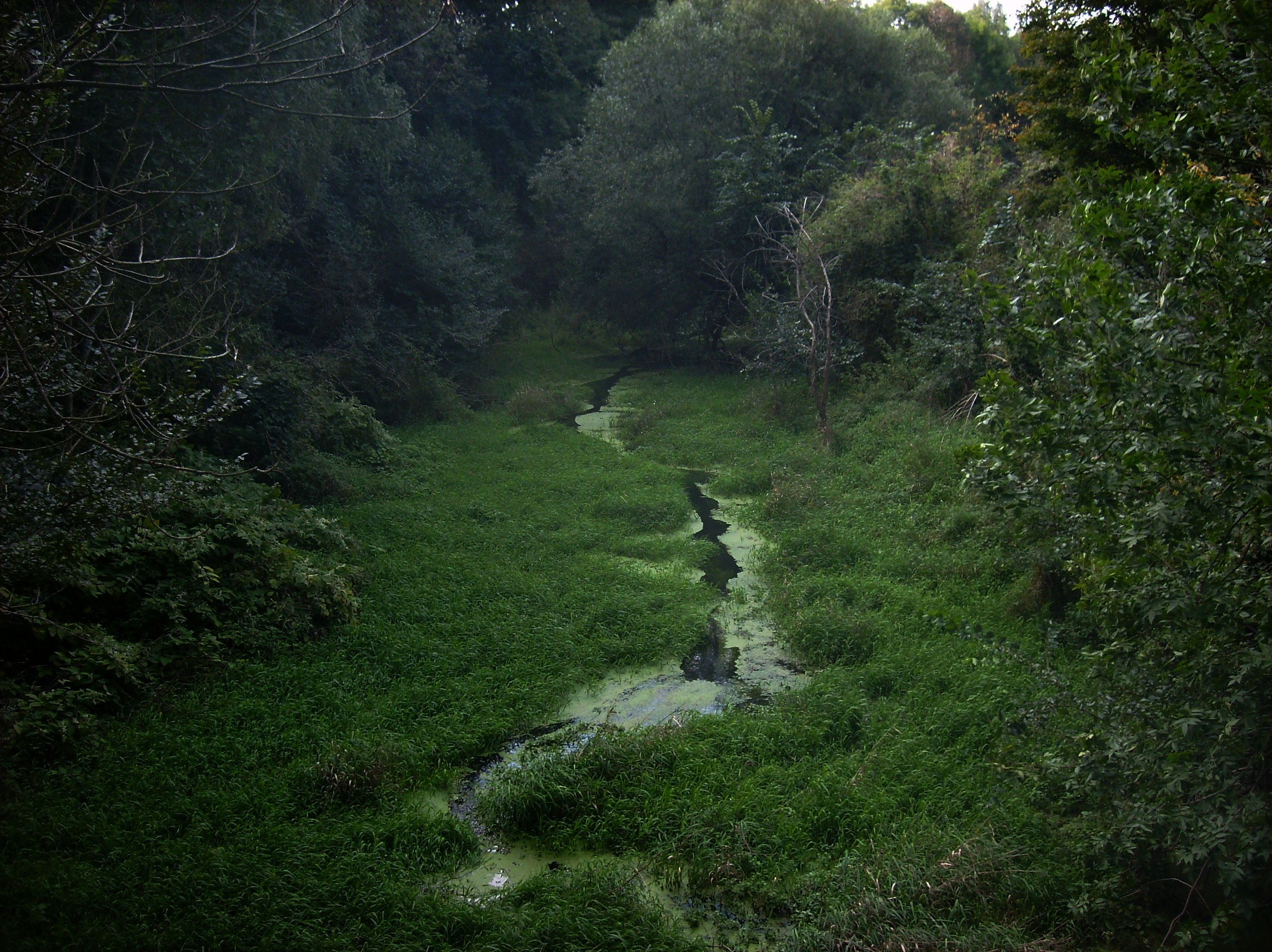 Luppe river, a branch of the Weisse Elster, near Horburg (Leuna, district of Salekreis, Saxony-Anhalt)